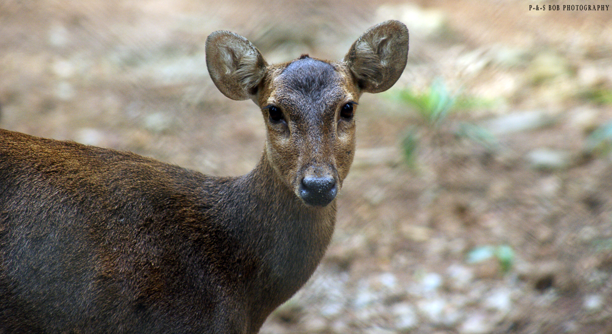 Rusa Bawean (in Malay) at Zoo Melaka, Malaysia.